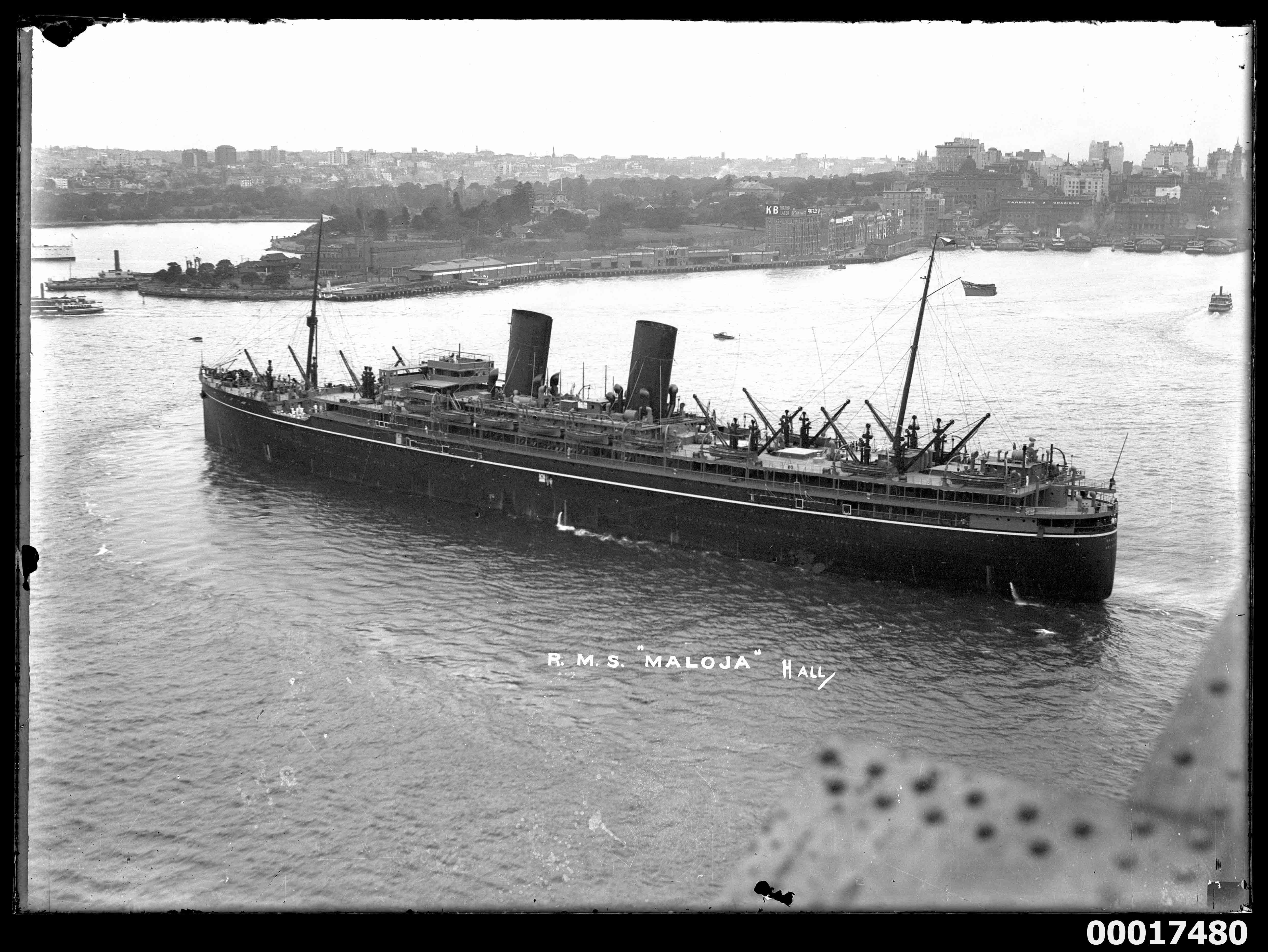 Glass half plate negative of the P&O Liner RMS MALOJA in Sydney Harbour. Taken from the Sydney Harbour Bridge with Bennelong Point and Circular Quay in the background. Title and artist's name `"R.M.S. Maloja" Hall' inscribed bottom centre.